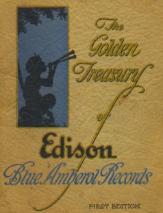 Cover of "The Golden Treasure of Edison Blue Amberol Records", a phonograph cylinder record catalogue.